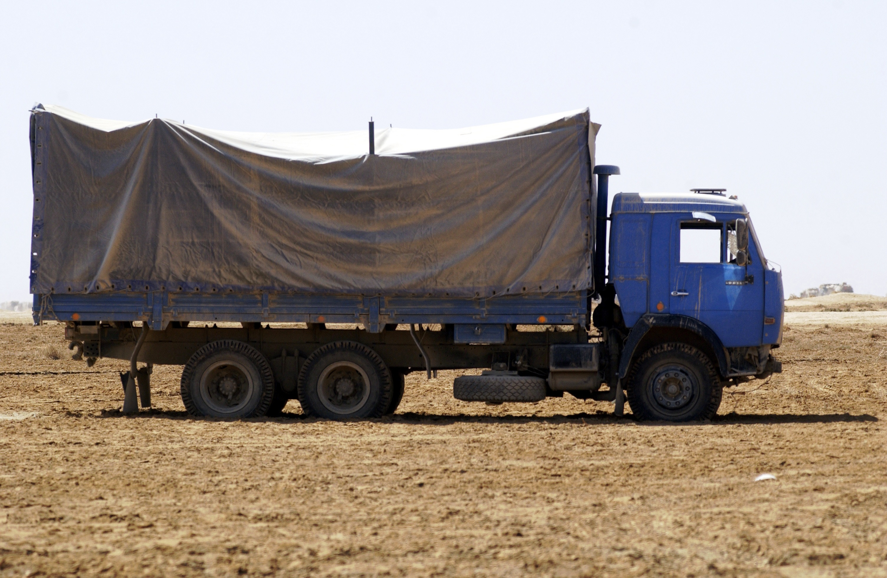 Russian KAMAZ track with ABABIL missles and M85 fuzes was captured by 3-7 Cavalery Squadron in Central Iraq on 28 March 2003. Squadron is currently deployed in support of OPERATION IRAQI FREEDOM. OPERATION IRAQI FREEDOM is the multinational coalition effort to liberate the Iraqi people, eliminate Iraq's weapons of mass destruction and end the regime of Saddem Hussein.